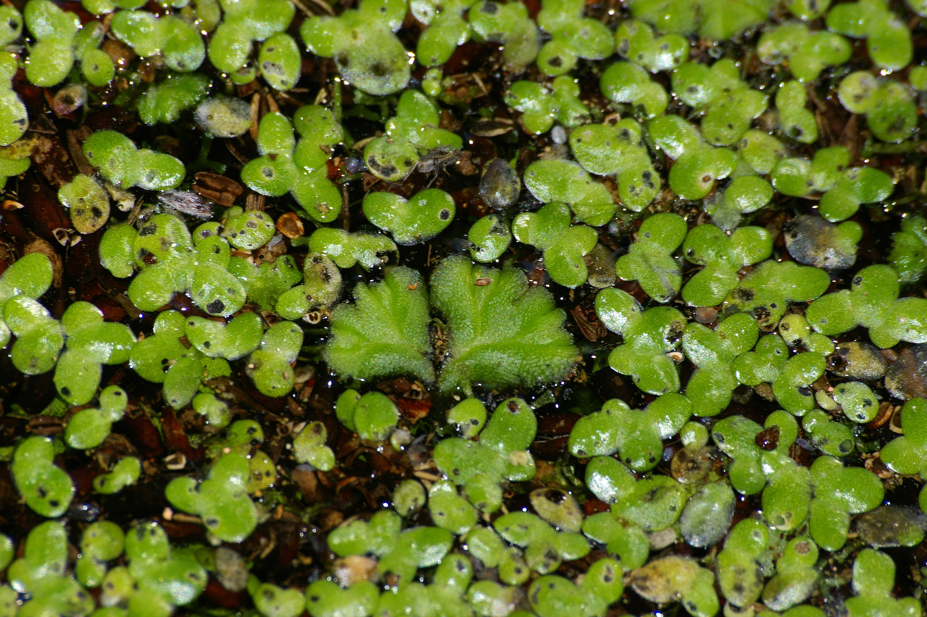 The floating liverwort species Ricciocarpos natans among Lesser Duckweed (Lemna minor).